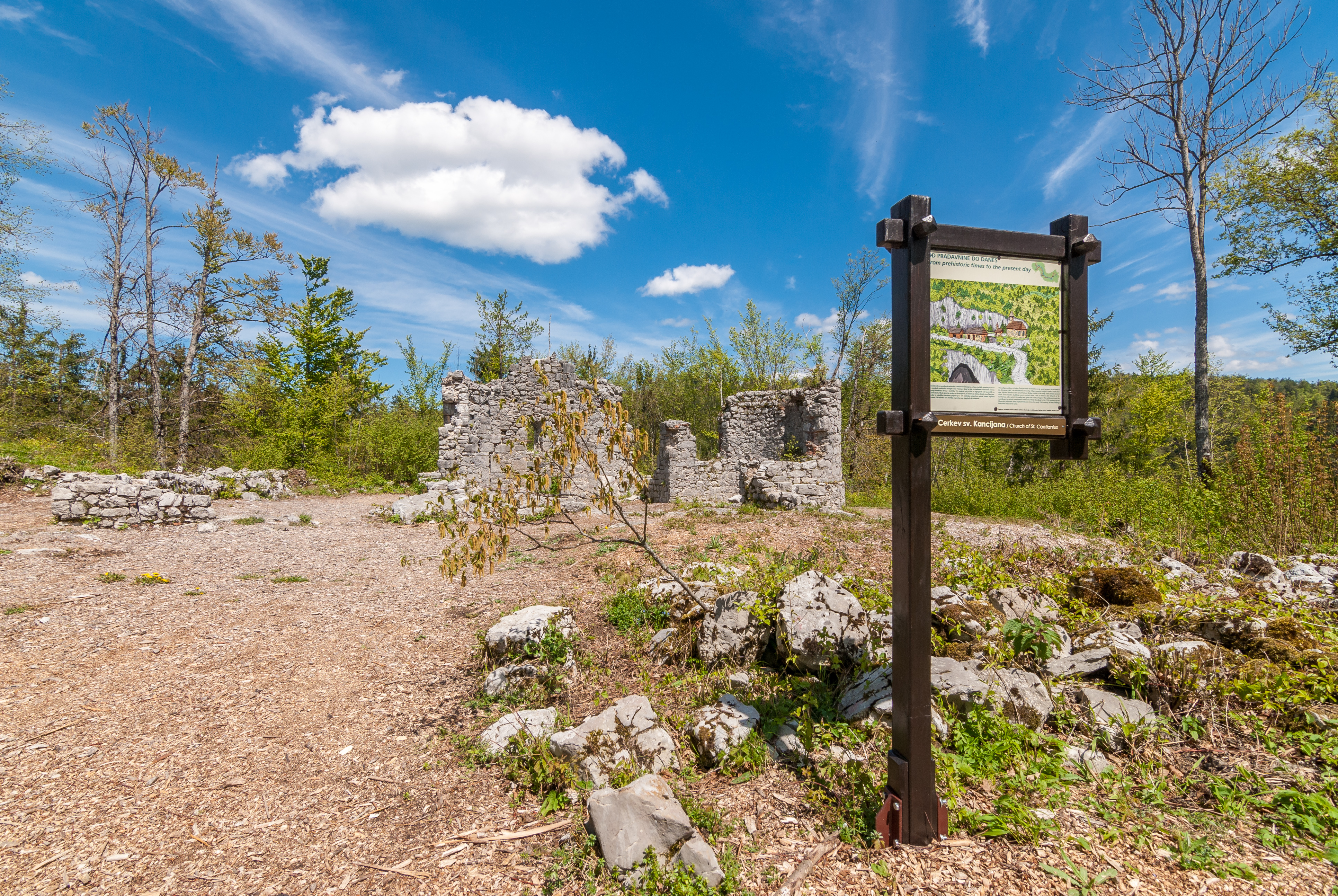 Ruins of Church of st. Cantianus in Rakov Škocjan, Slovenia